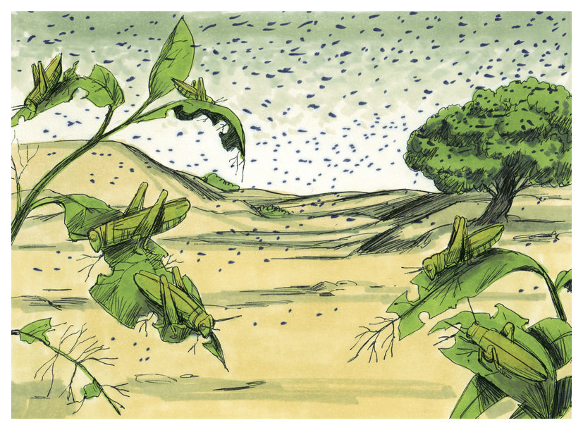 Biblical illustration of Book of Exodus Chapter 11